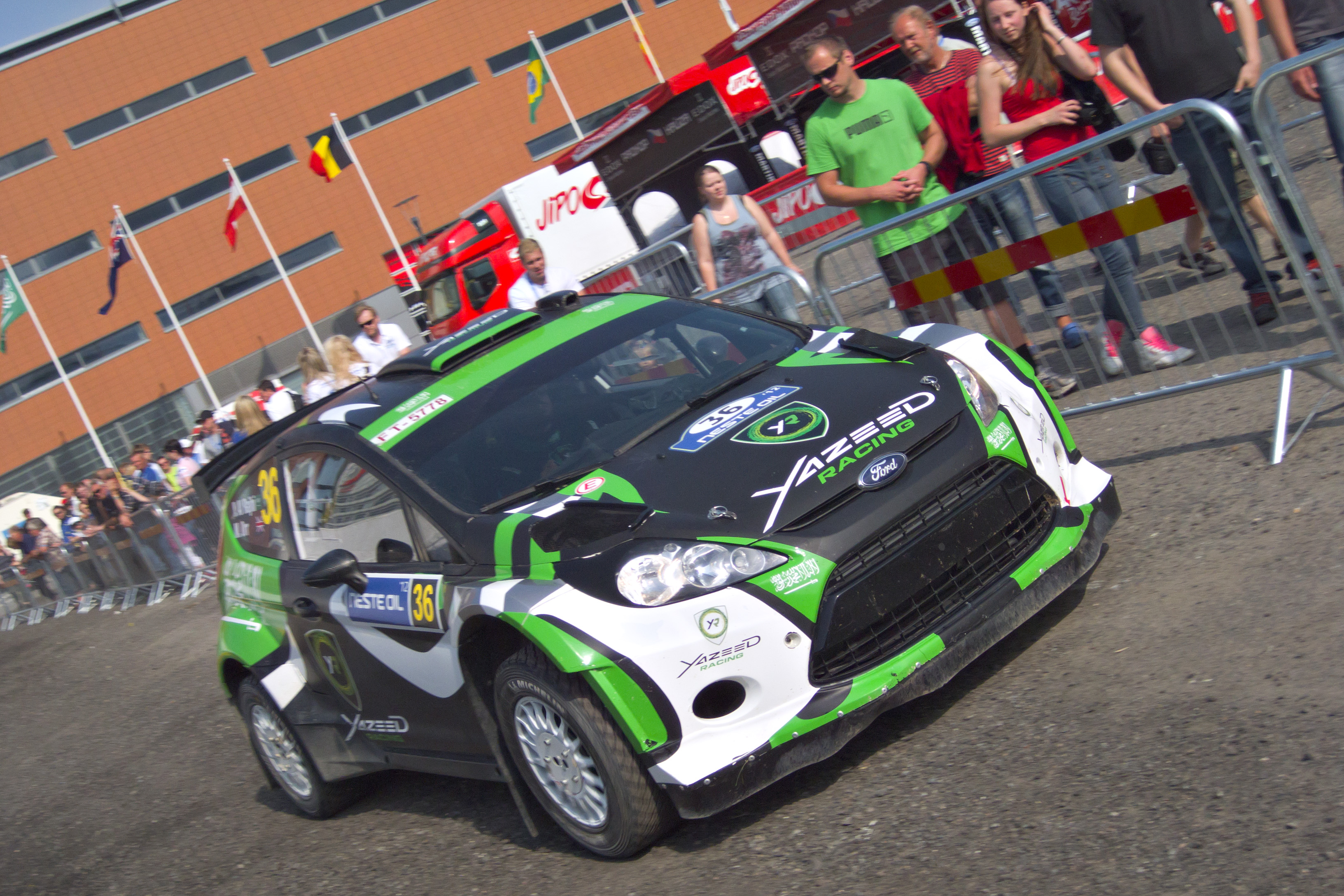 Action from the service D during the 2012 Rally Finland.